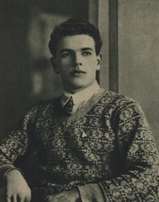 Rudolf Burkert, Czech/German skier, 1928